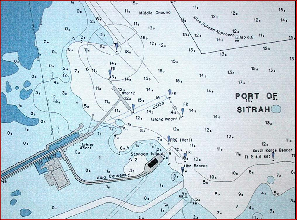 This is a segment of an automatically labeled nautical chart.